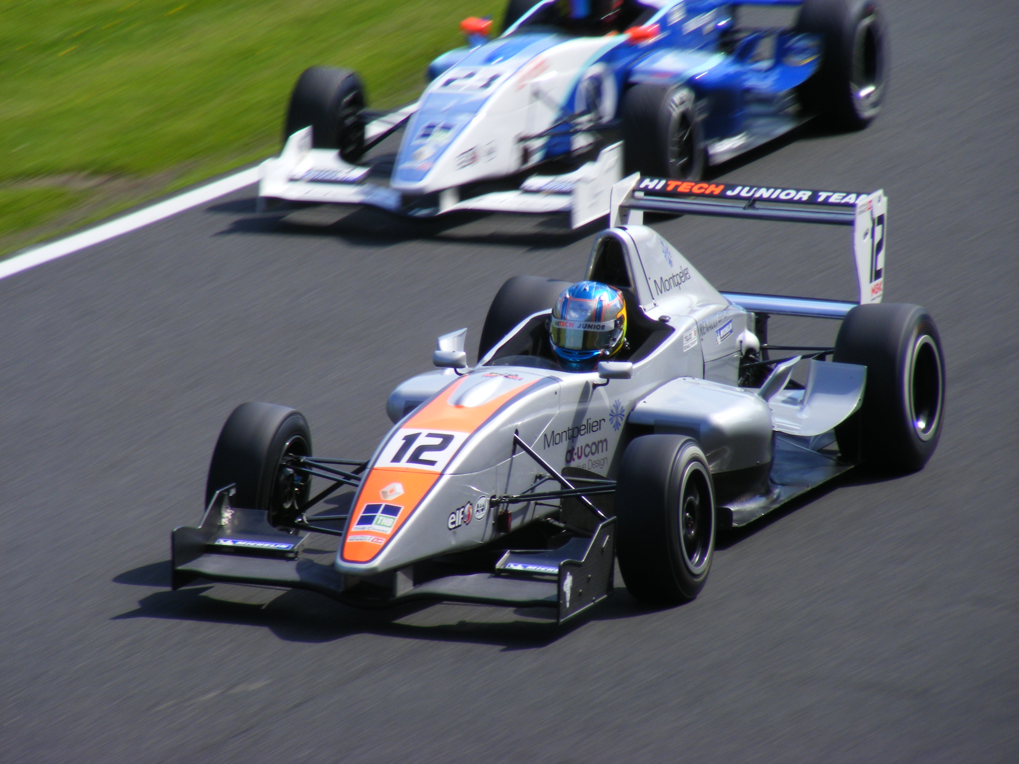 Nick Yelloly (12) climbs Oulton Park's Clay Hill during a qualifying session. Max Dmytrenko (23) is also pictured.